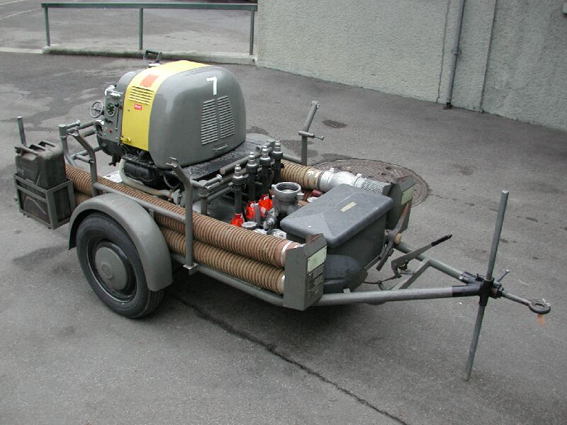 Mobile fire pump, type 2 (Vogt, 1965)